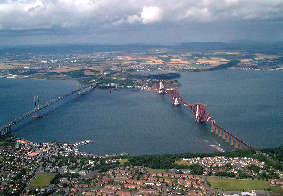 Aerial photograph of both bridges across the River Forth in Scotland. The Forth Road Bridge is to the left, the Forth Rail Bridge to the right.